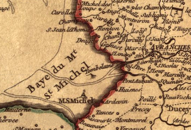 Mont Saint-Michel on a 1758 map of the government of Normandy